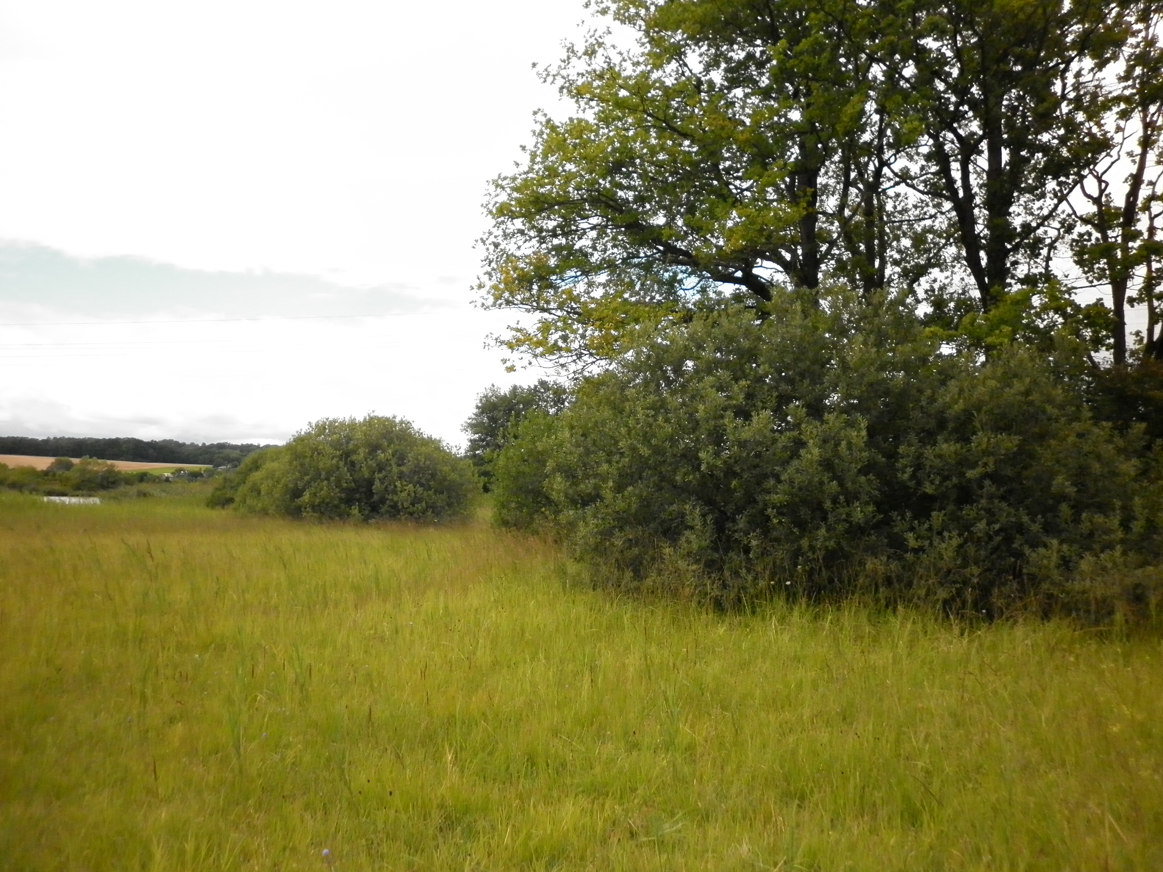 Nature reserve "Dubno" in Náchod District, Czech Republic.